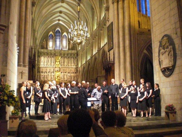 Desmond Tutu on stage with Merbecke Choir